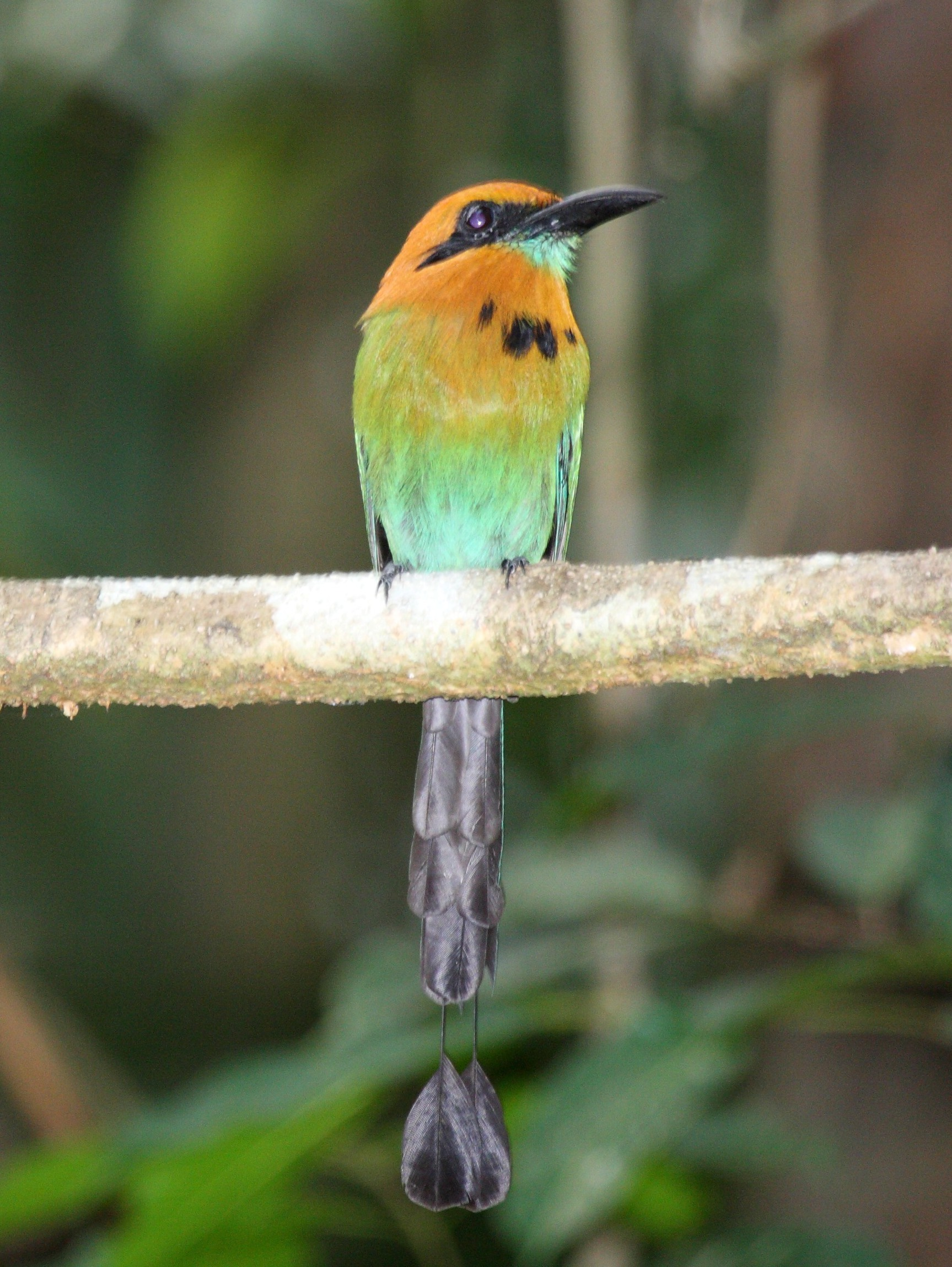 A Broad-billed Motmot in Panama.